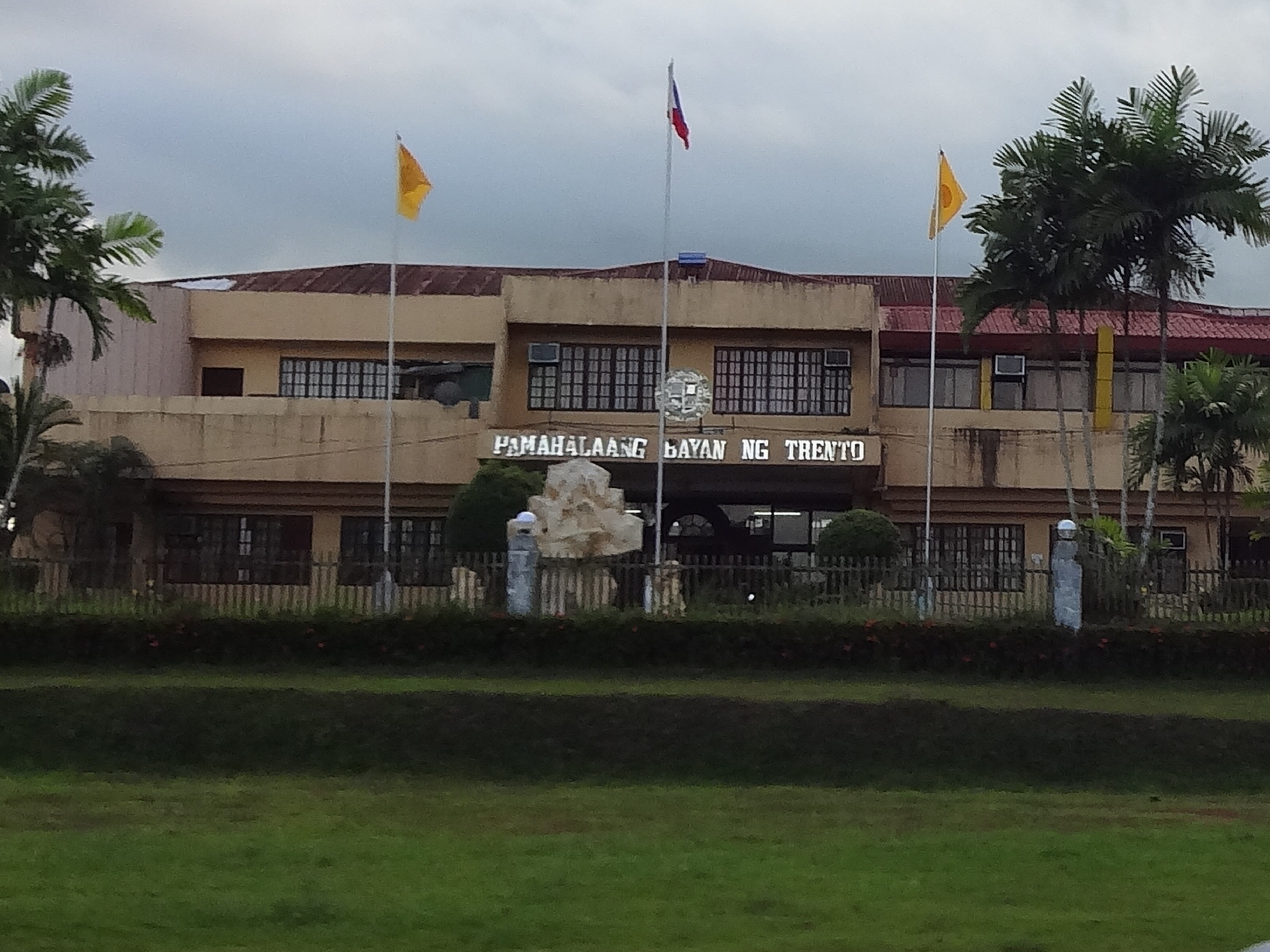 This is my own work. The Municipal Hall of Trento, Agusan del Sur.